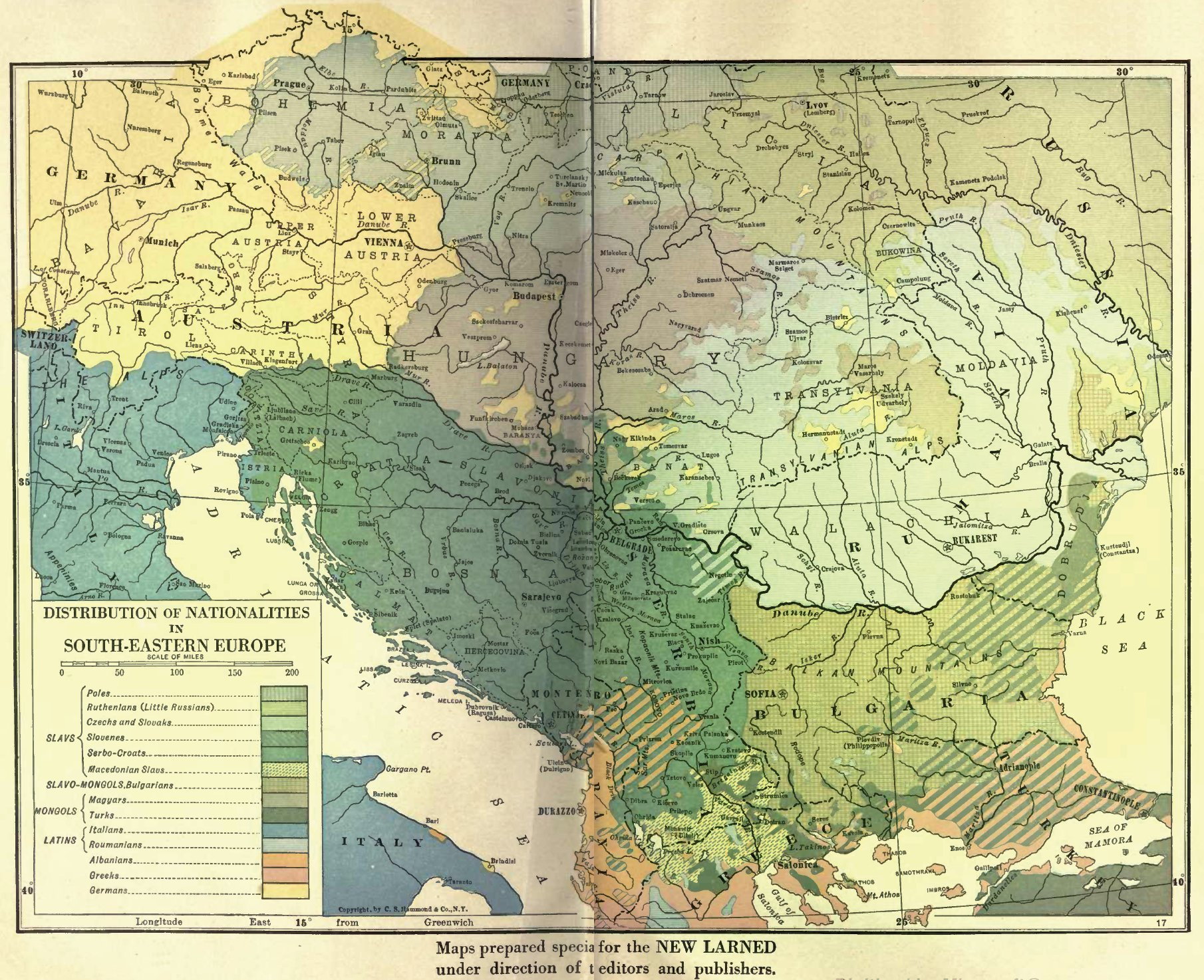 "Distribution of nationalities in southeastern Europe", early 20th cent.